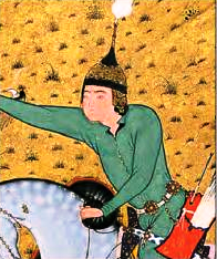 Gushtasp in folio 402 of the Shahnama of Shah Tahmasp. The miniature, which is now in the Aga Khan Museum, Toronto (accession # AKM 00163), is one of six illustrations in the Houghton manuscript that are attributed to Mirza Ali, the early 16th-century court artist of the Moghuls of Northern India.